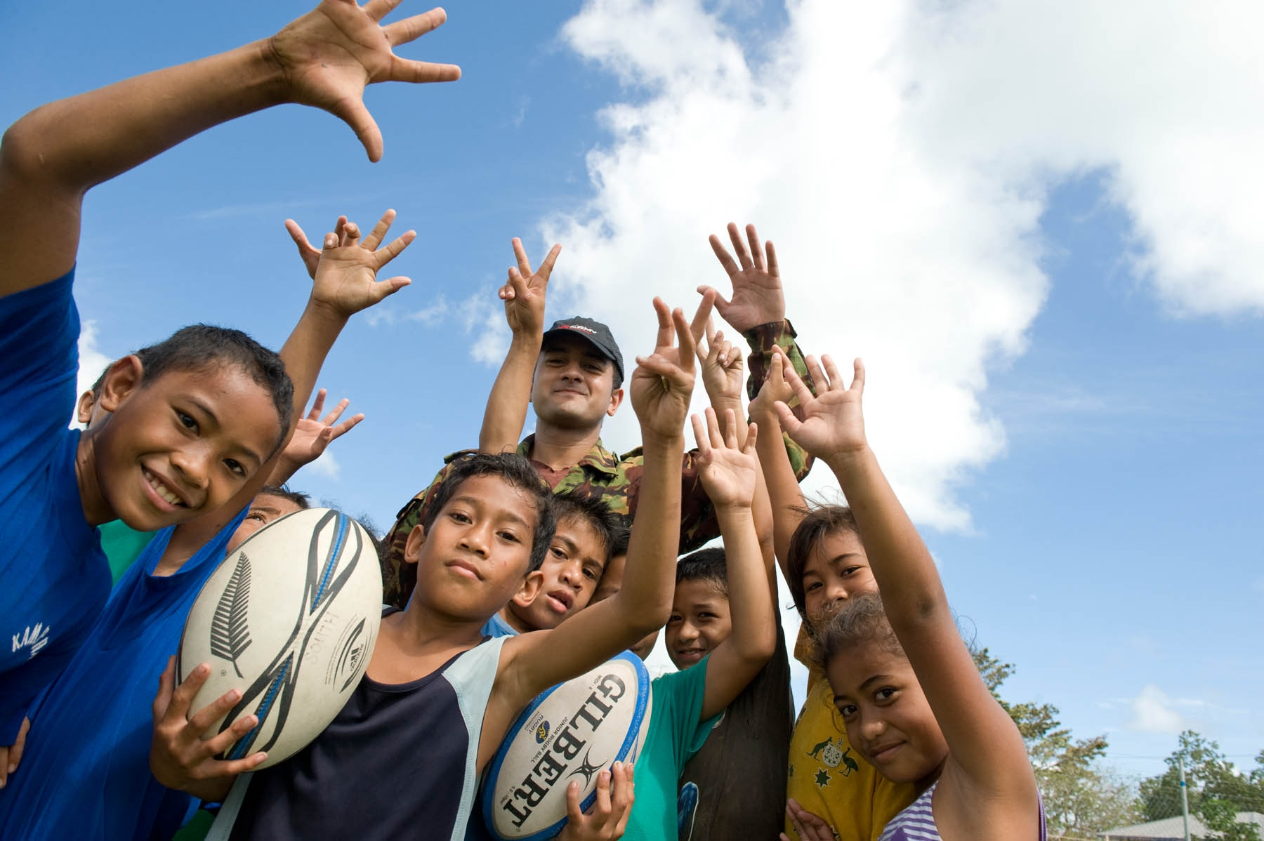 As part of the Civil-Military Cooperation aspects of the exercise, New Zealand Defence Force personnel handed out rugby balls and uniforms donated by the New Zealand Rugby Union and the Auckland Blues. Three Army engineers fixed the plumbing at a primary school and built a kitchen and a shower block for the community hall at Poutasi village, one of the areas badly damaged by the earthquake and tsunami in 2009. Information Technology specialists from the Royal New Zealand Air Force cleaned nine virus-infected laptop computers used by Paul VI College students.